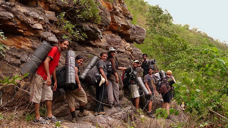 Chennai Trekking Club group on cliff trail at Parda Point, Nagalapuram Hills, Chittoor district, Andhra Pradesh, India.